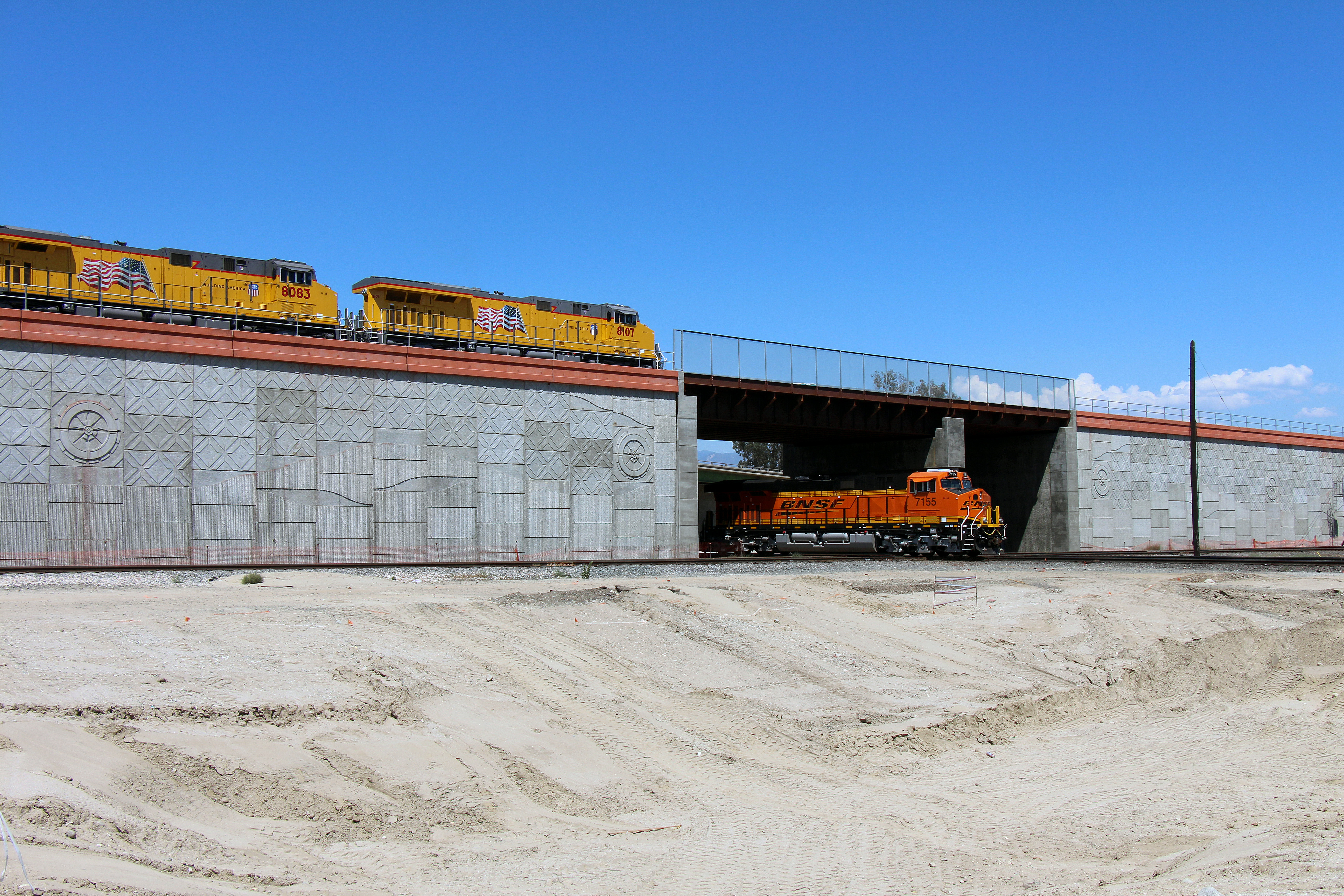 The Colton Crossing flyover structure.